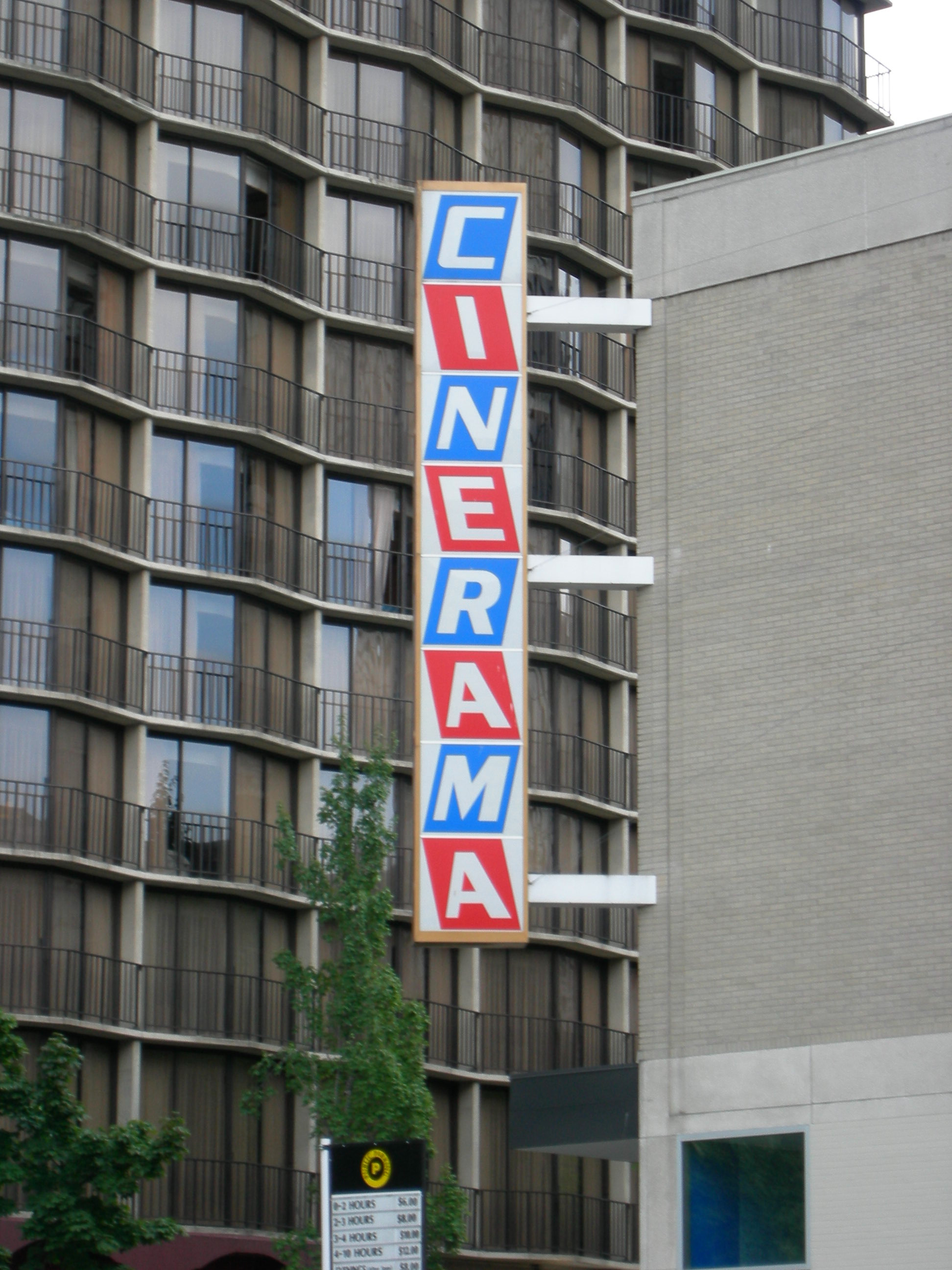 Cinerama theater, Seattle, Washington